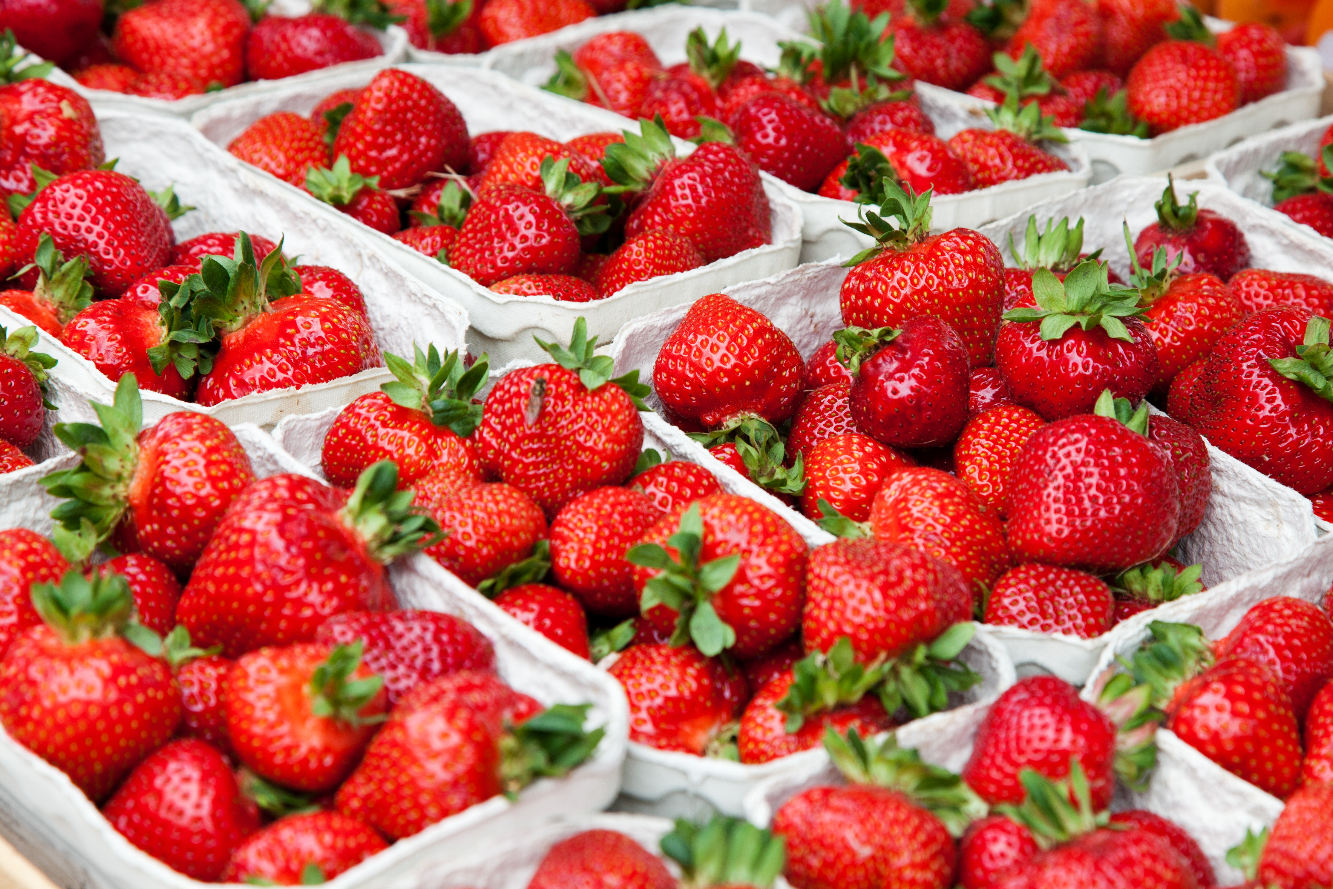 Strawberries at Viktualienmarkt in Munich, Germany.